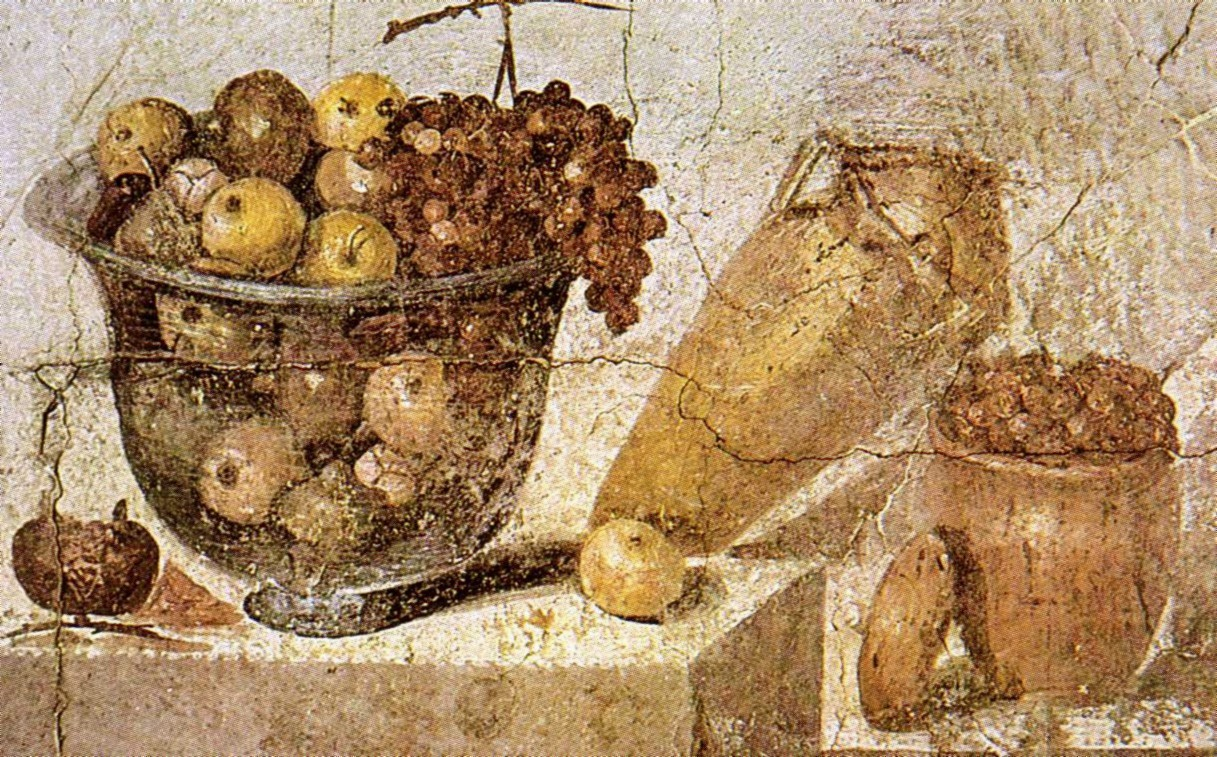 Still life showing fruit bowl, jar of wine, jar of raisins: House of Julia Felix, Pompeii